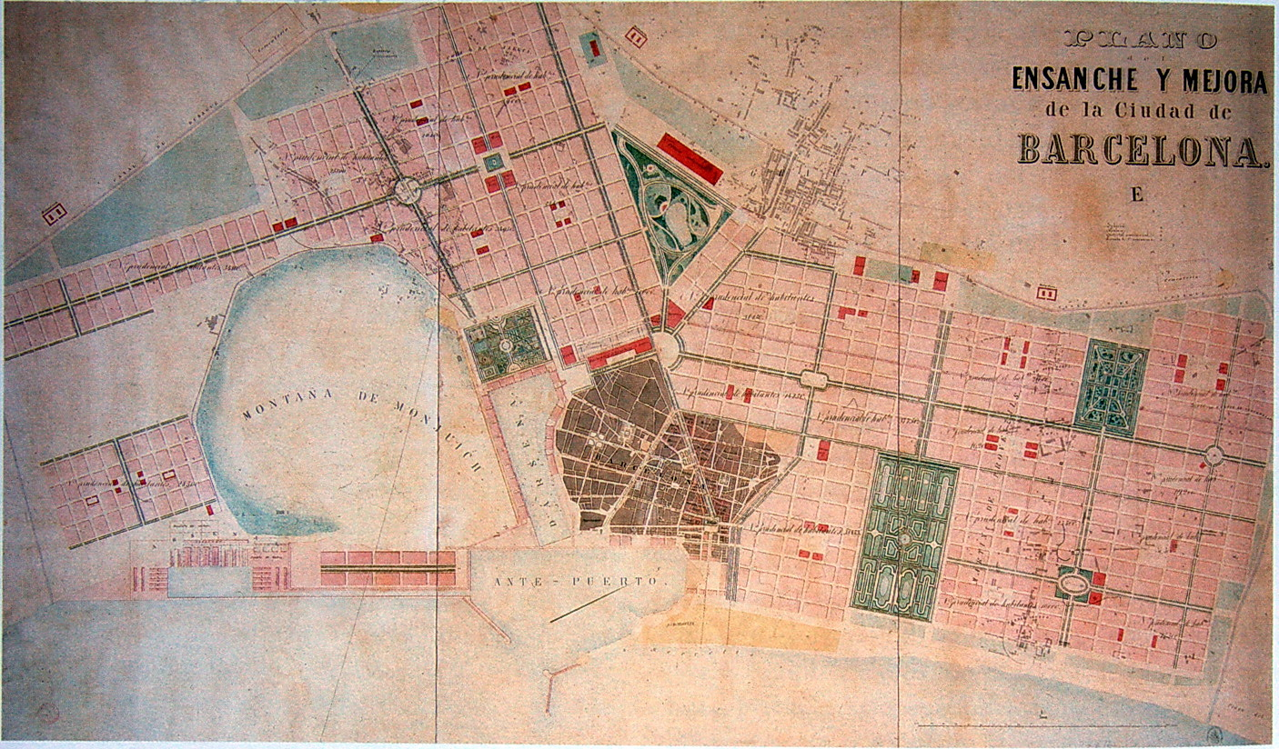 Eixample map of Barcelona. Map of Francesc Soler's project for the "Barcelona's eixample bid" which won the "Plan Cerdà" 1859.